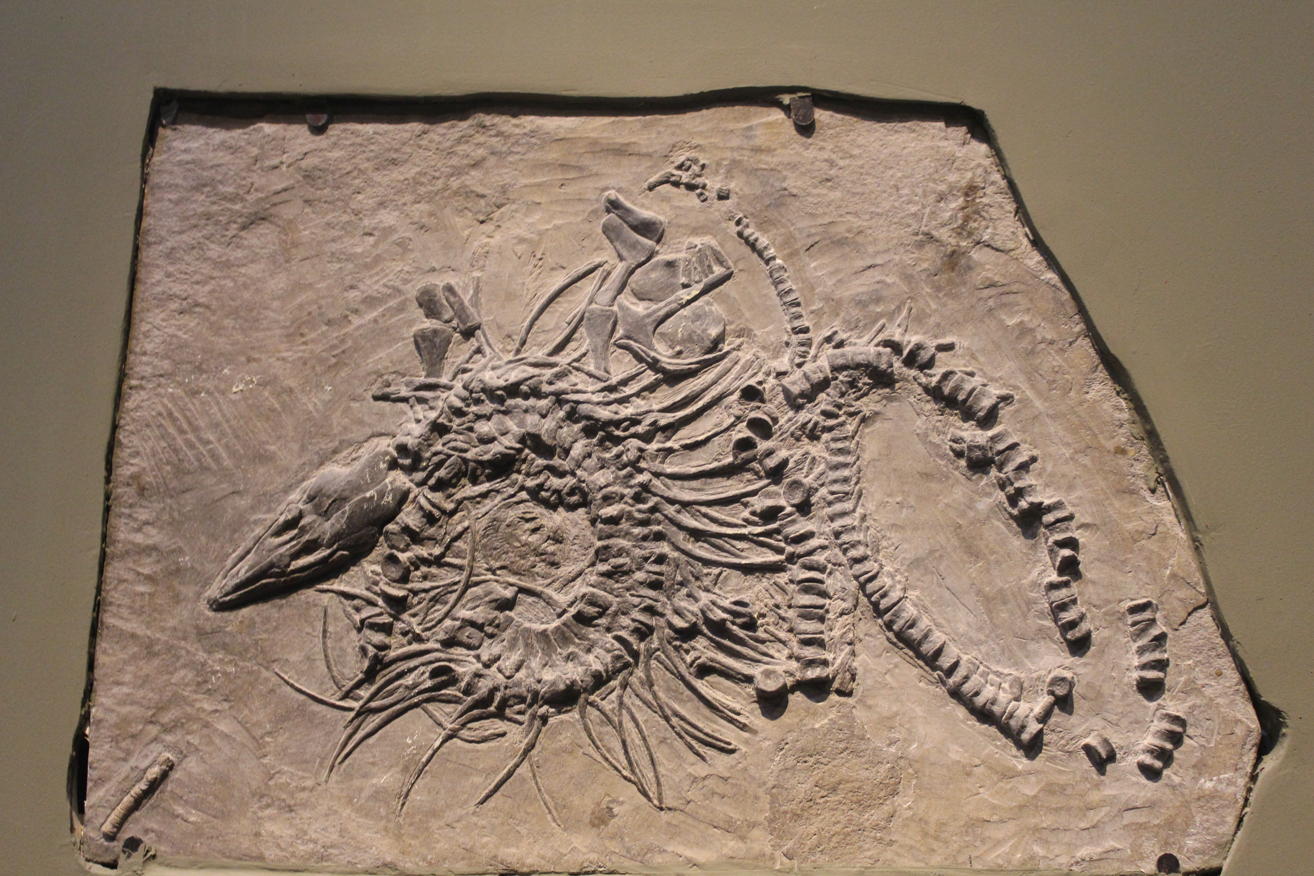 Skeleton of Xinpusaurus suni on display at the Tianjin Natural History Museum.